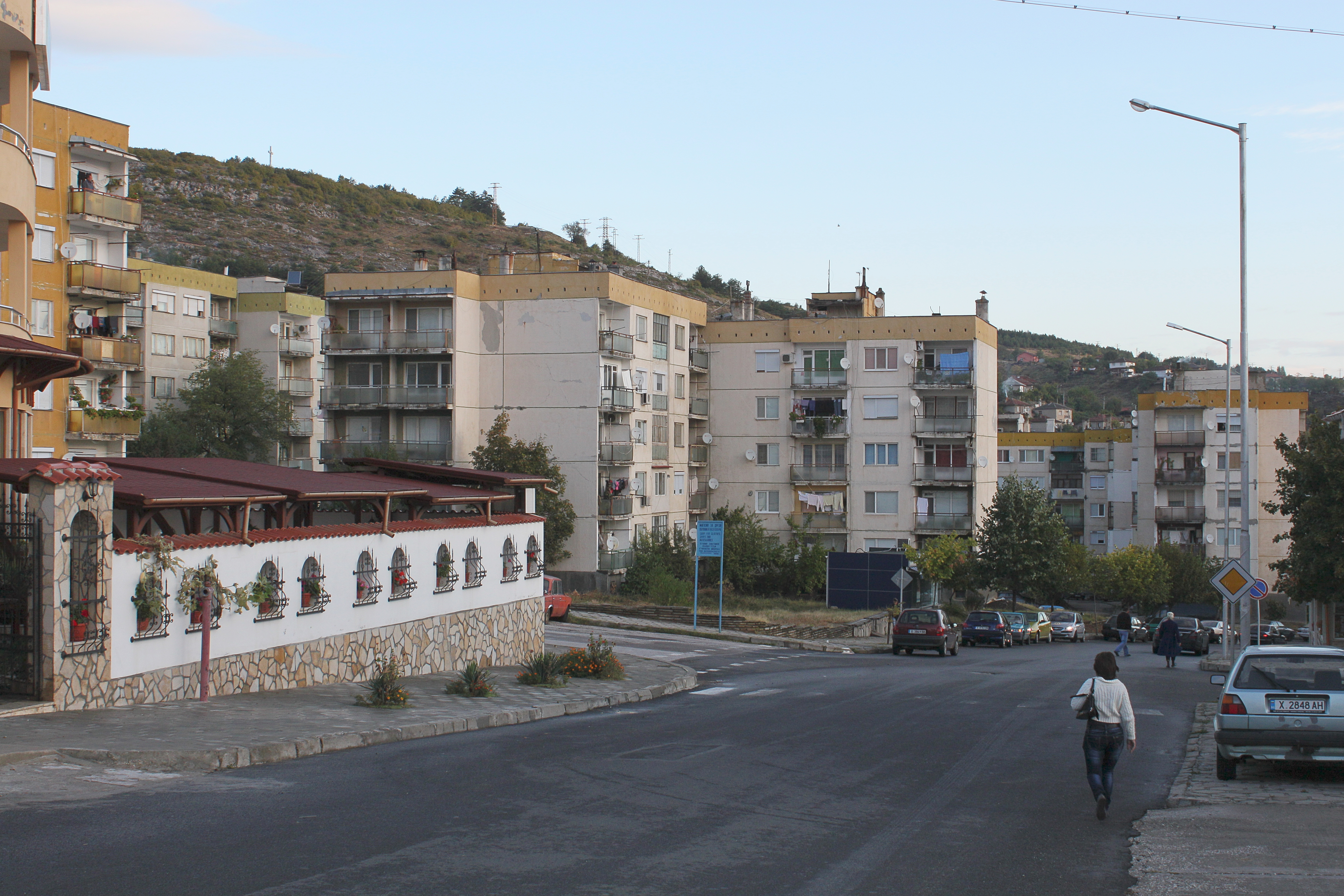 Ivailovgrad, Bulgaria